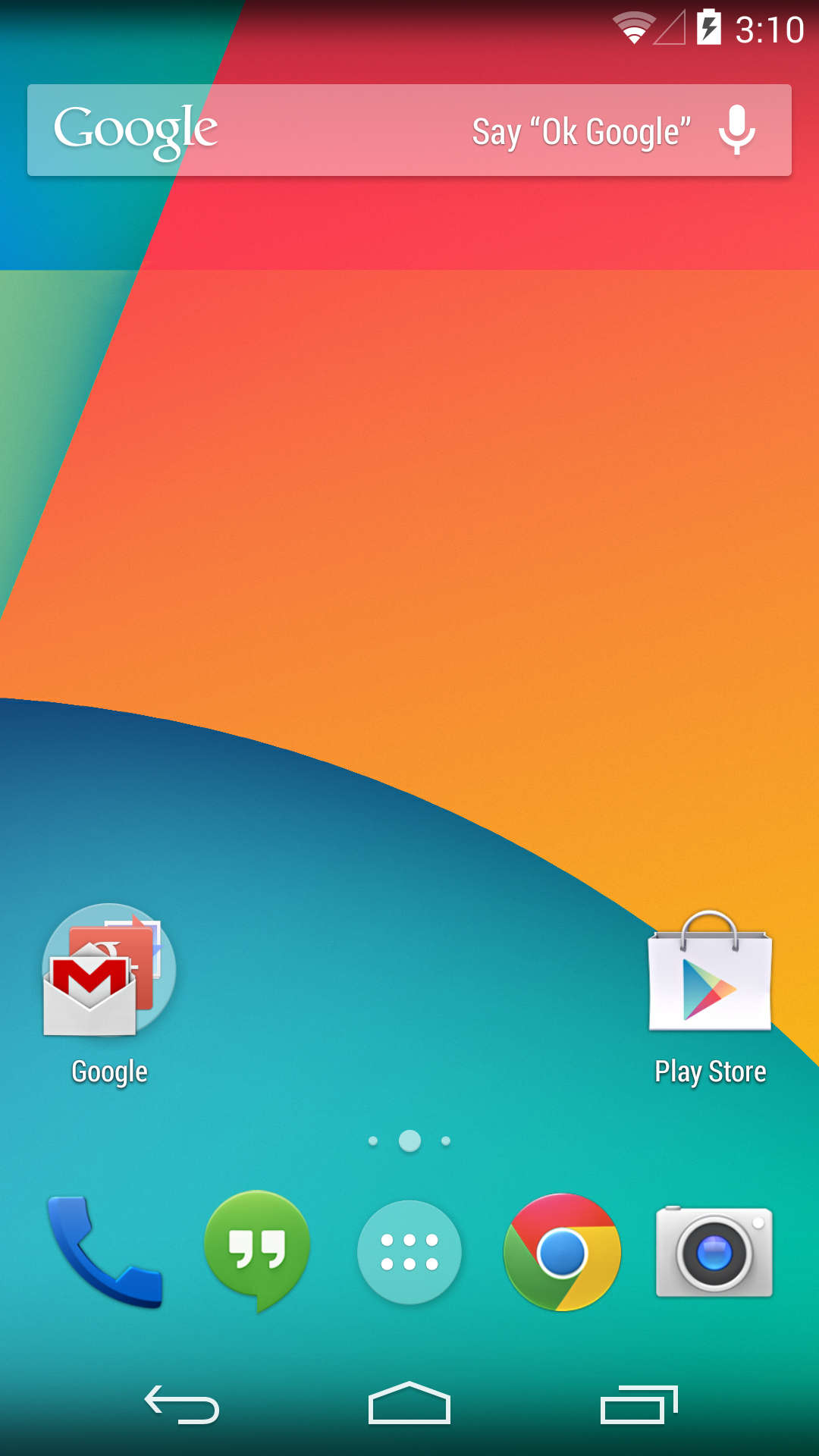 This is a screenshot of a the version of Android.